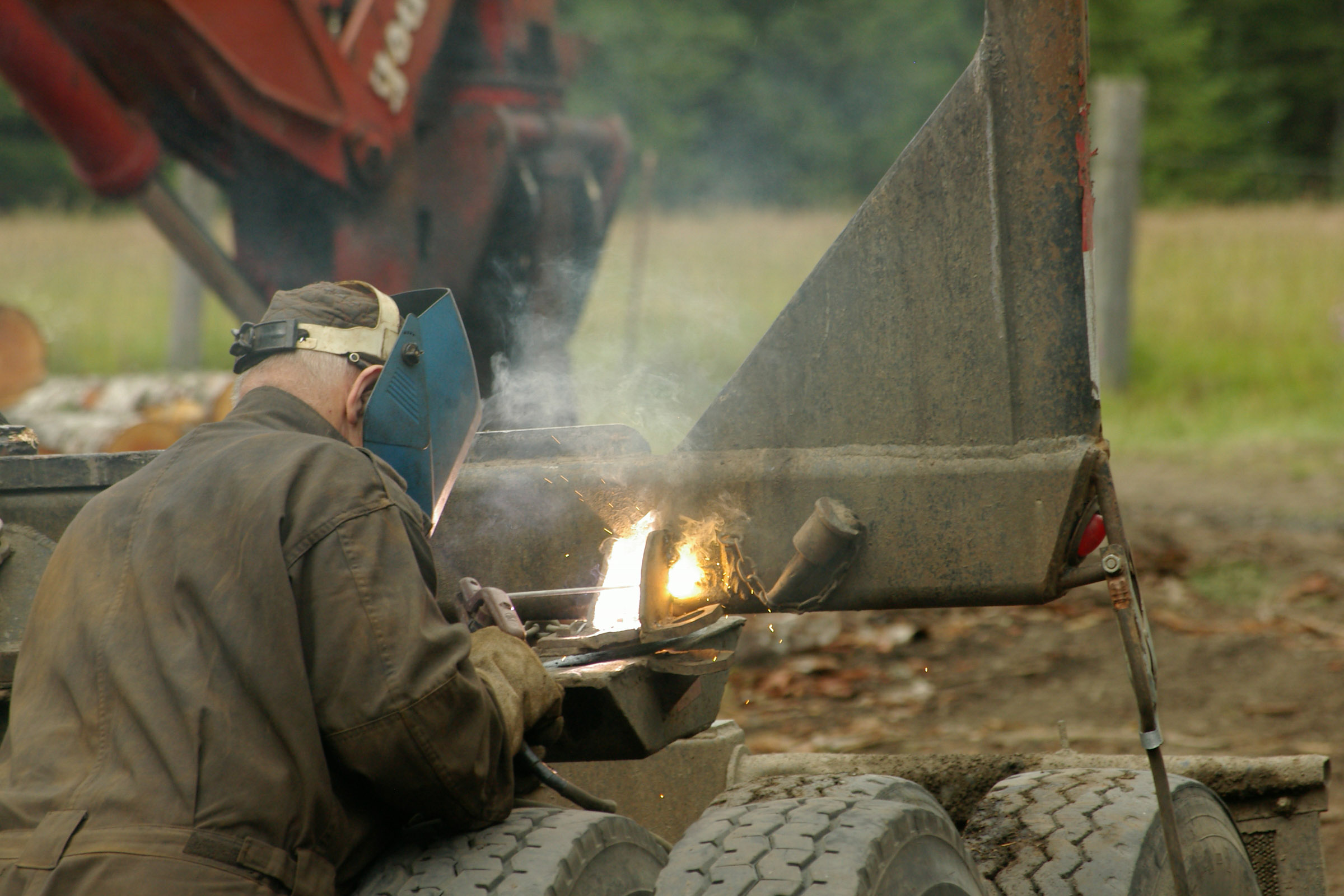 Field welding readily accomplished with SMAW (shielded metal arc welding) technology, USA